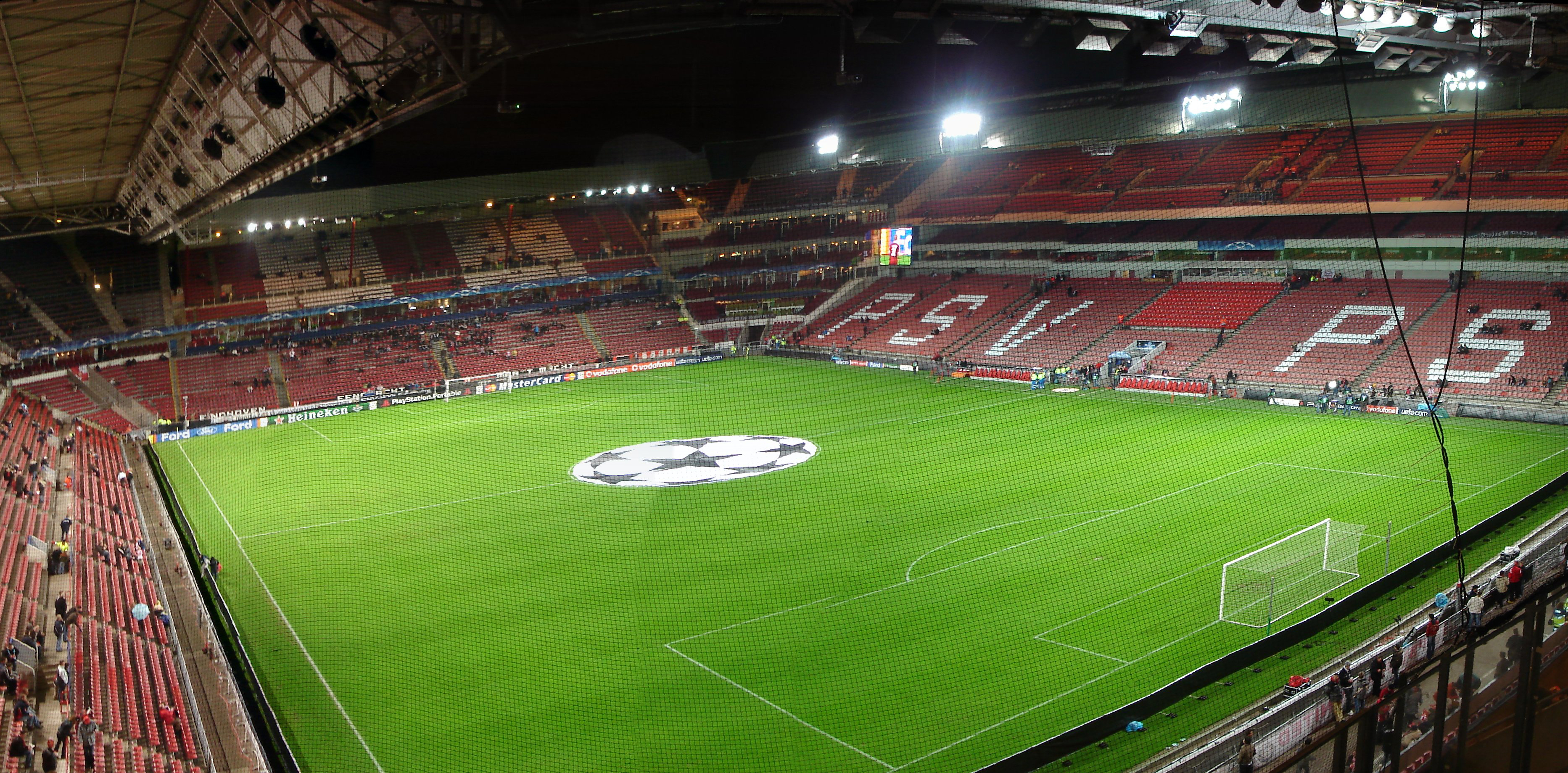 Philips Stadion, Eindhoven, Netherlands